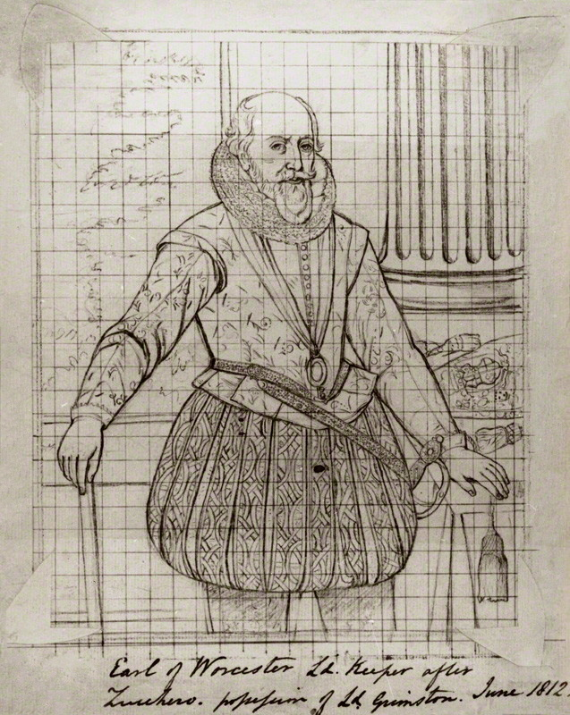 Portrait of Edward Somerset, 4th Earl of Worcester